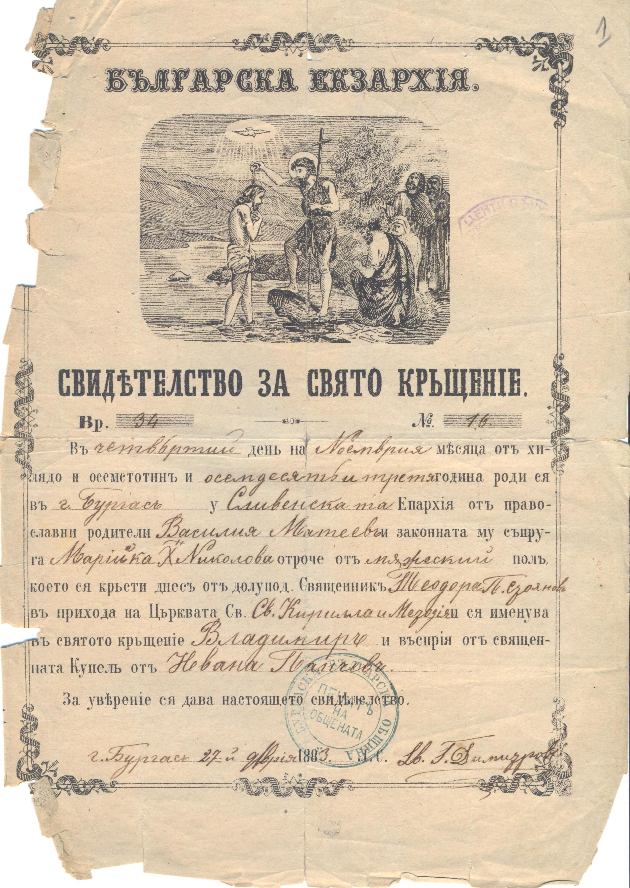 Vladimir Vasilev